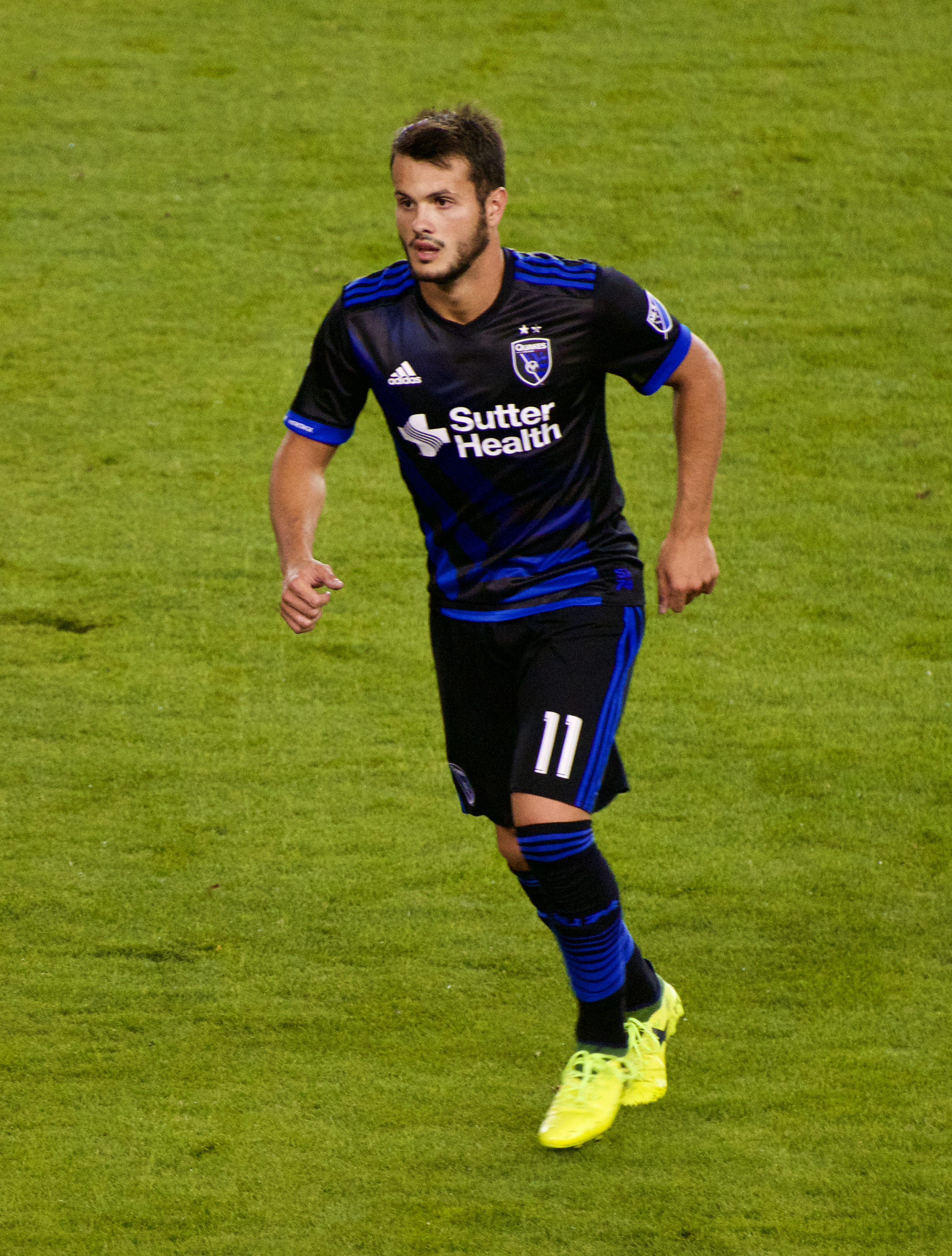 playing for San Jose Earthquakes at Avaya Stadium on 19 August 2017.